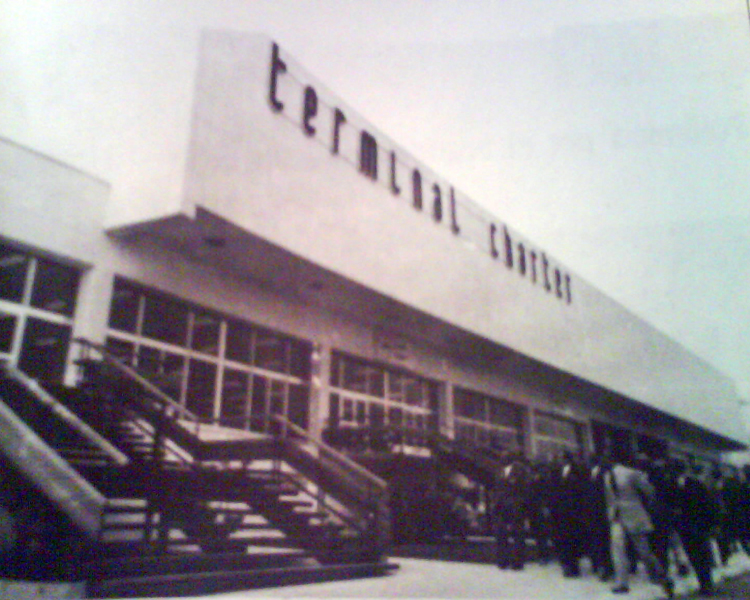 Terminal Charter in 1972 - (Alicante Airport)